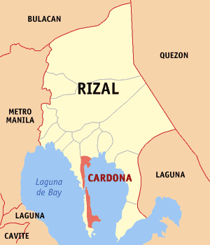 Locator map of Cardona in Rizal, Philippines.